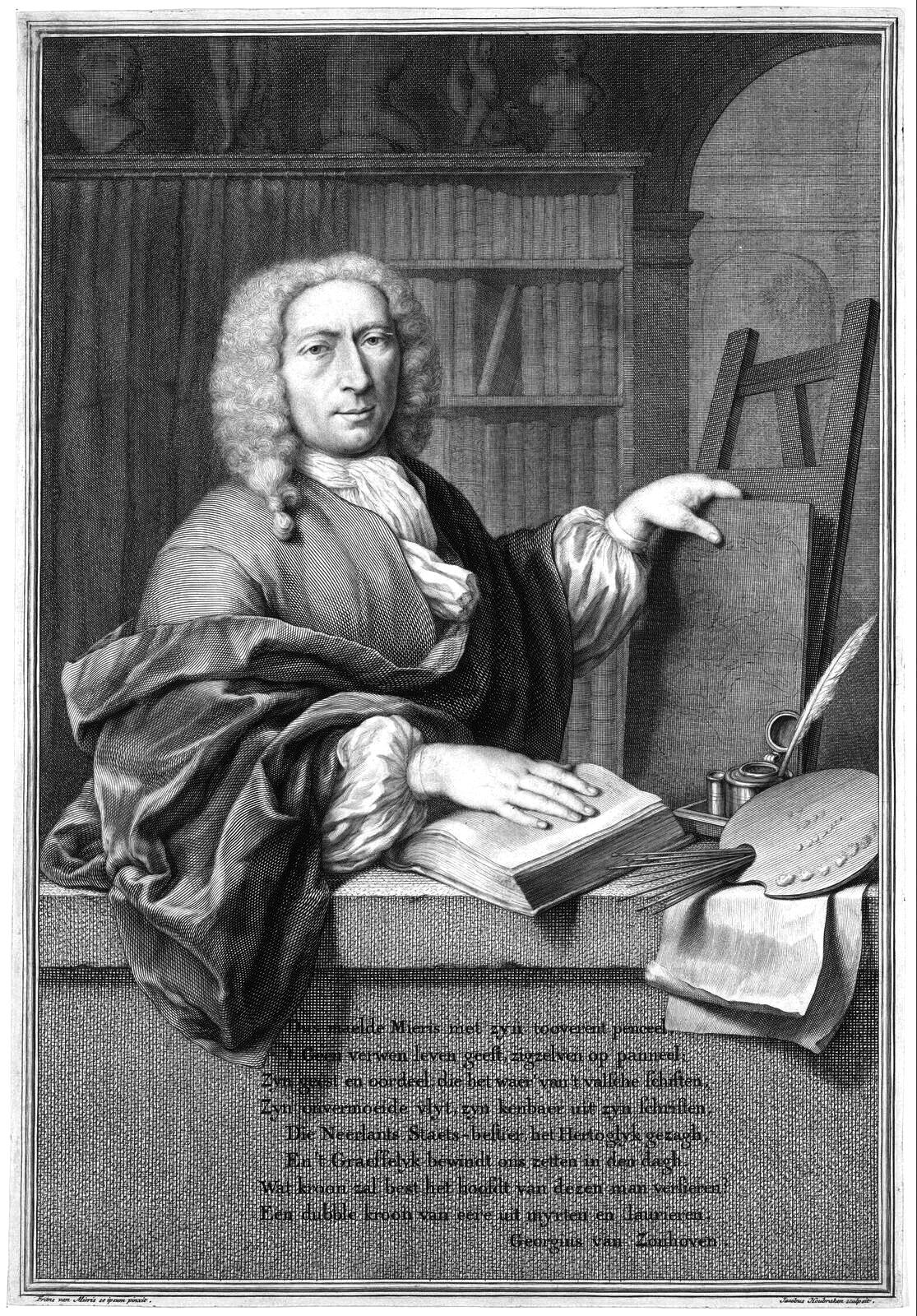 Frans van Mieris (II) etching, engraving 34 x 23.2 cm ca 1730 - 1760 after Frans van Mieris (II)